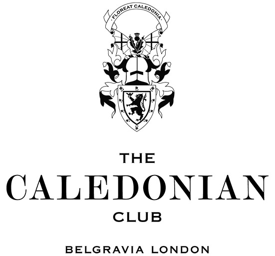 Caledonian Club Logo